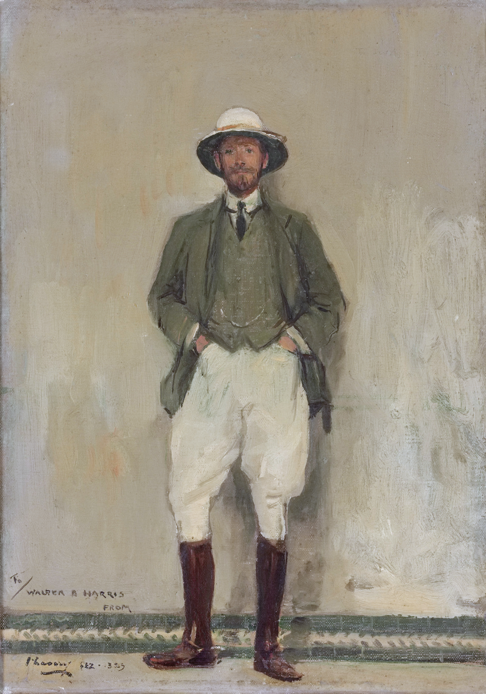 Walter Burton Harris (1866-1933) oil on canvas-board 35.5 x 25.4 cm signed b.l.: TO/WALTER B HARRIS/FROM/J Lavery Fez 3 July circa 1907